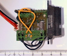 Photo of a smart transducer node with sensor attached